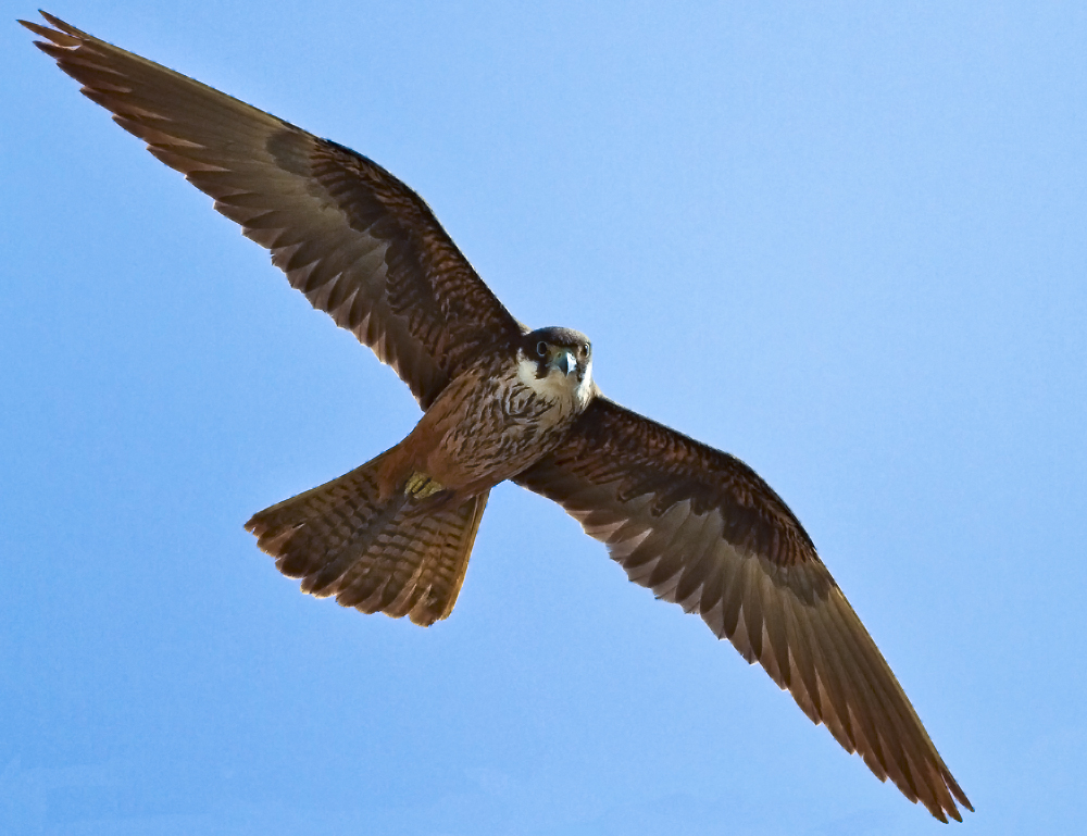 light morph adult, wild Eleonora's Falcon at Cap Formentor on Mallorca, Spain Europe